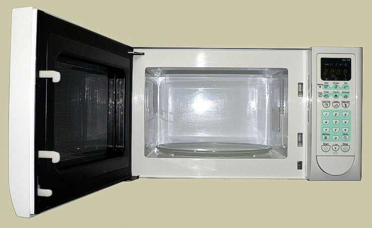 microwave oven